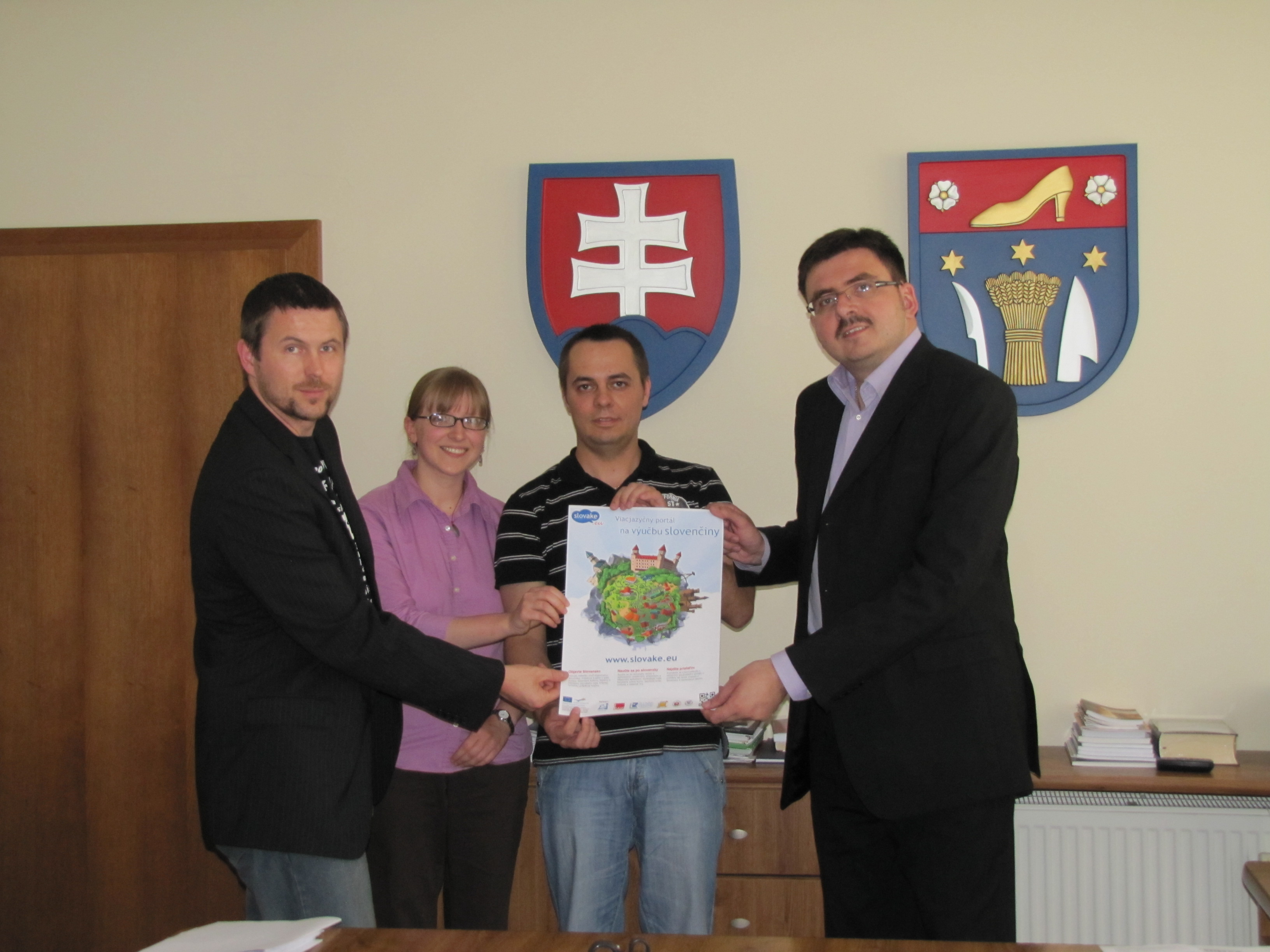 Activists of E@I involved in the Slovake.eu project during a reception hosted by mayor Jozef Božik in the town hall of Partizánske on 9 August 2011.